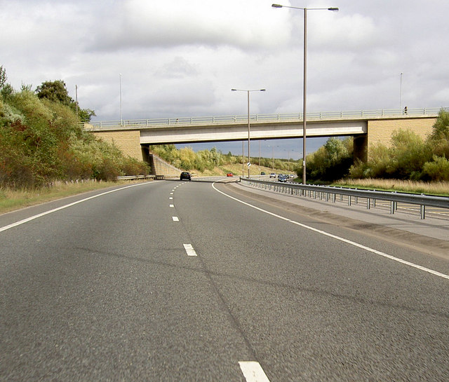 Bridge to Blacker Hill over Dearne Valley Parkway.